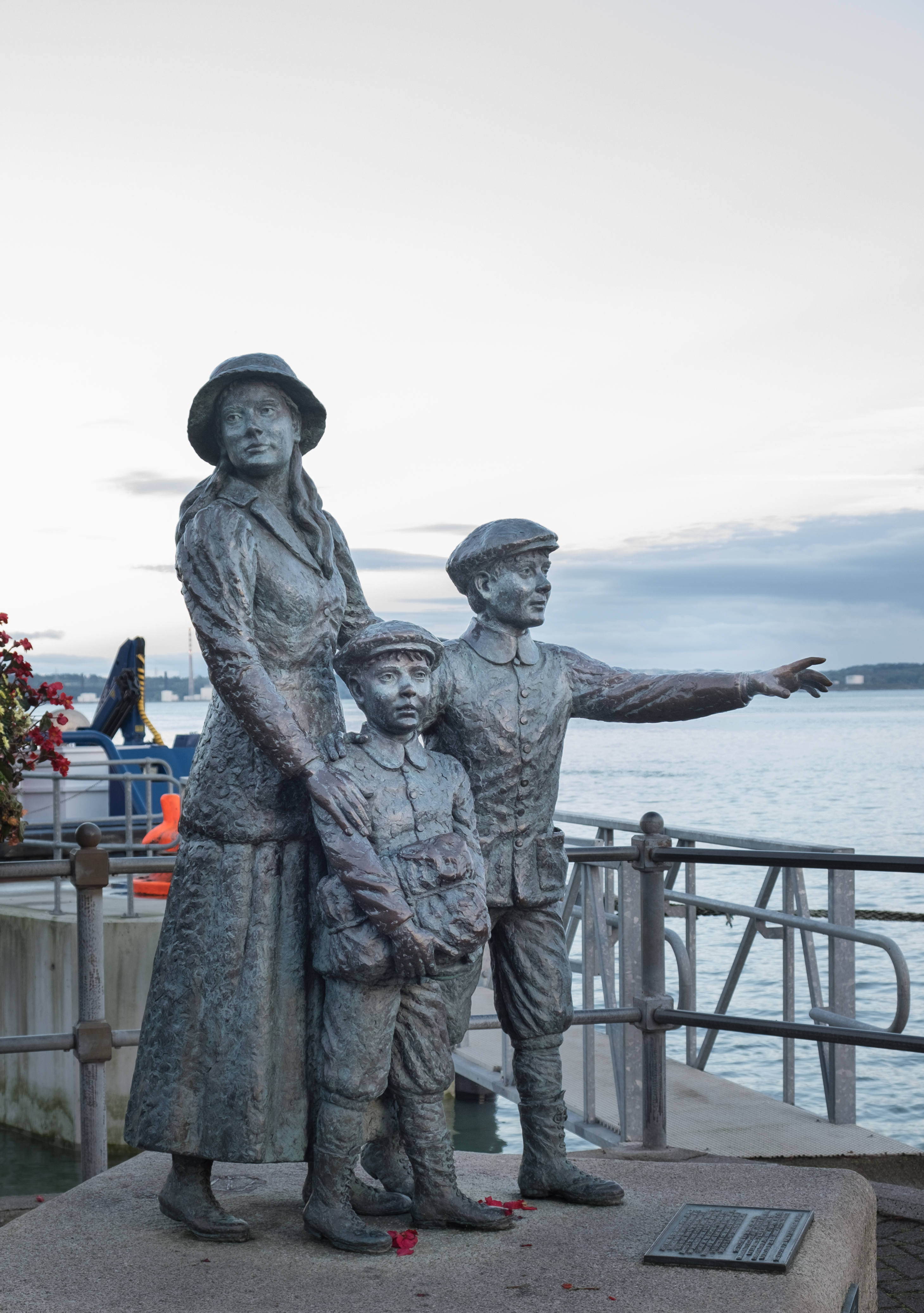 Annie Moore Statue by Jeanne Rynhart, Cobh, Ireland. Annie, an Irish emigrant, was the first immigrant to the United States to pass through federal immigrant inspection on Ellis Island.